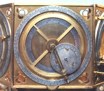 Venus Dial of Astrarium made by Carlo G Croce